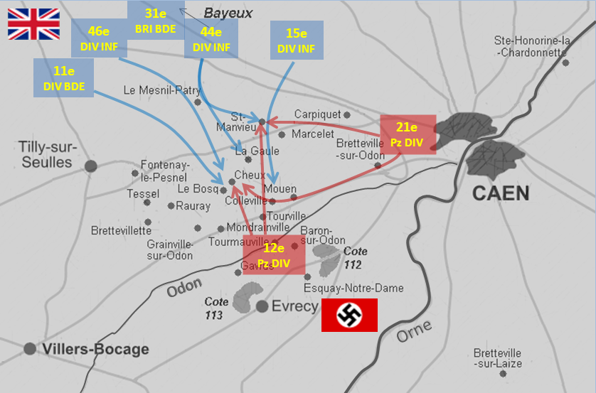 Operation Epsom main movements on 1944, June 26